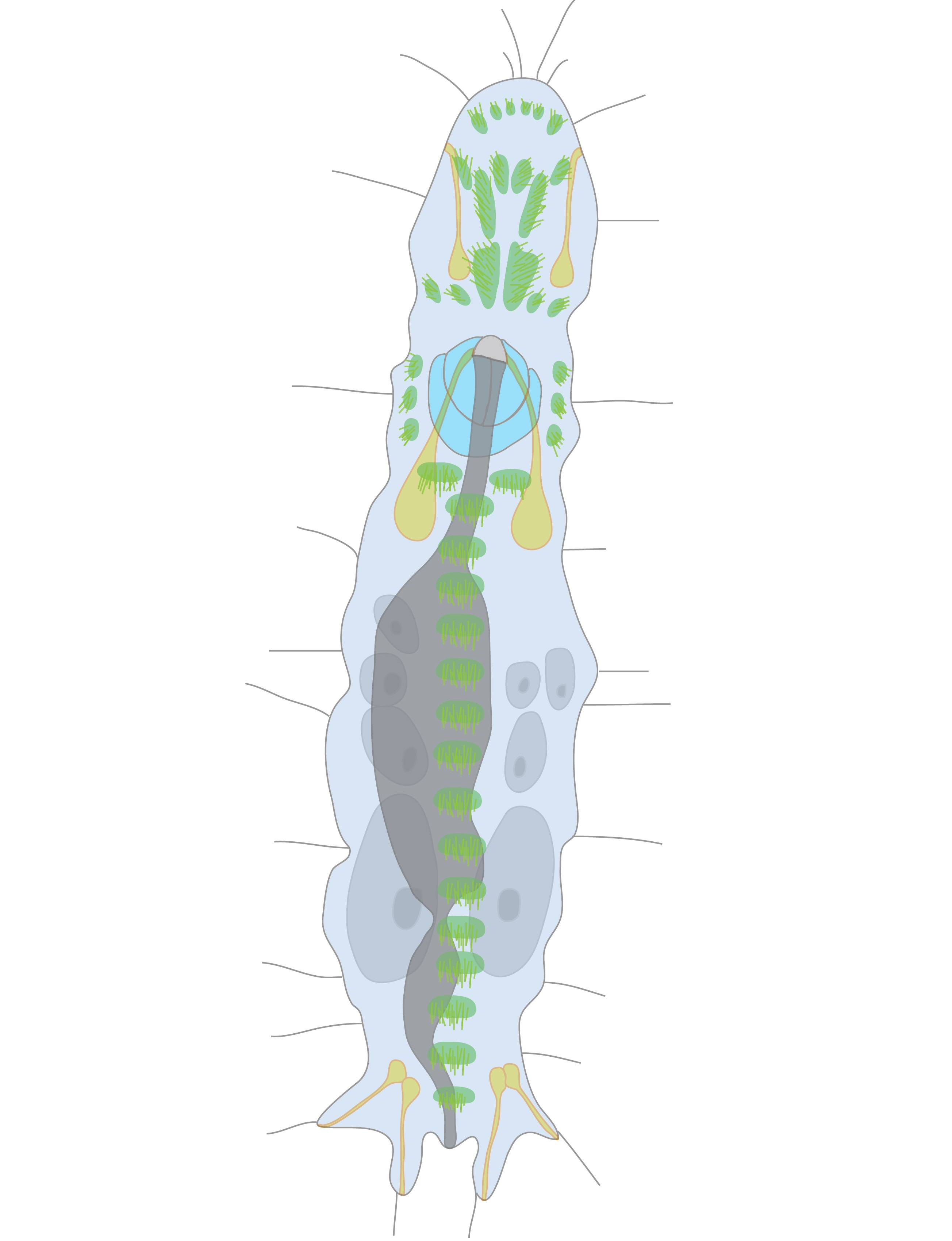 Schematic drawing of "Diurodrilus".